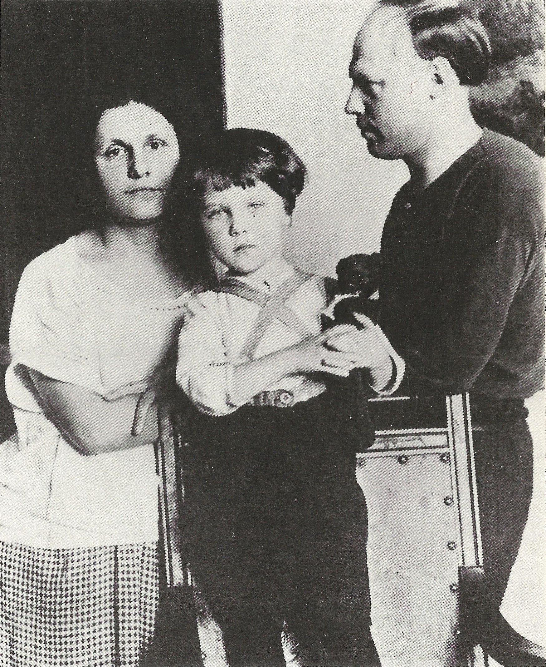 Aleksandr Drevin, Nadezhda Udaltsova and their son Andrei. About 1925.